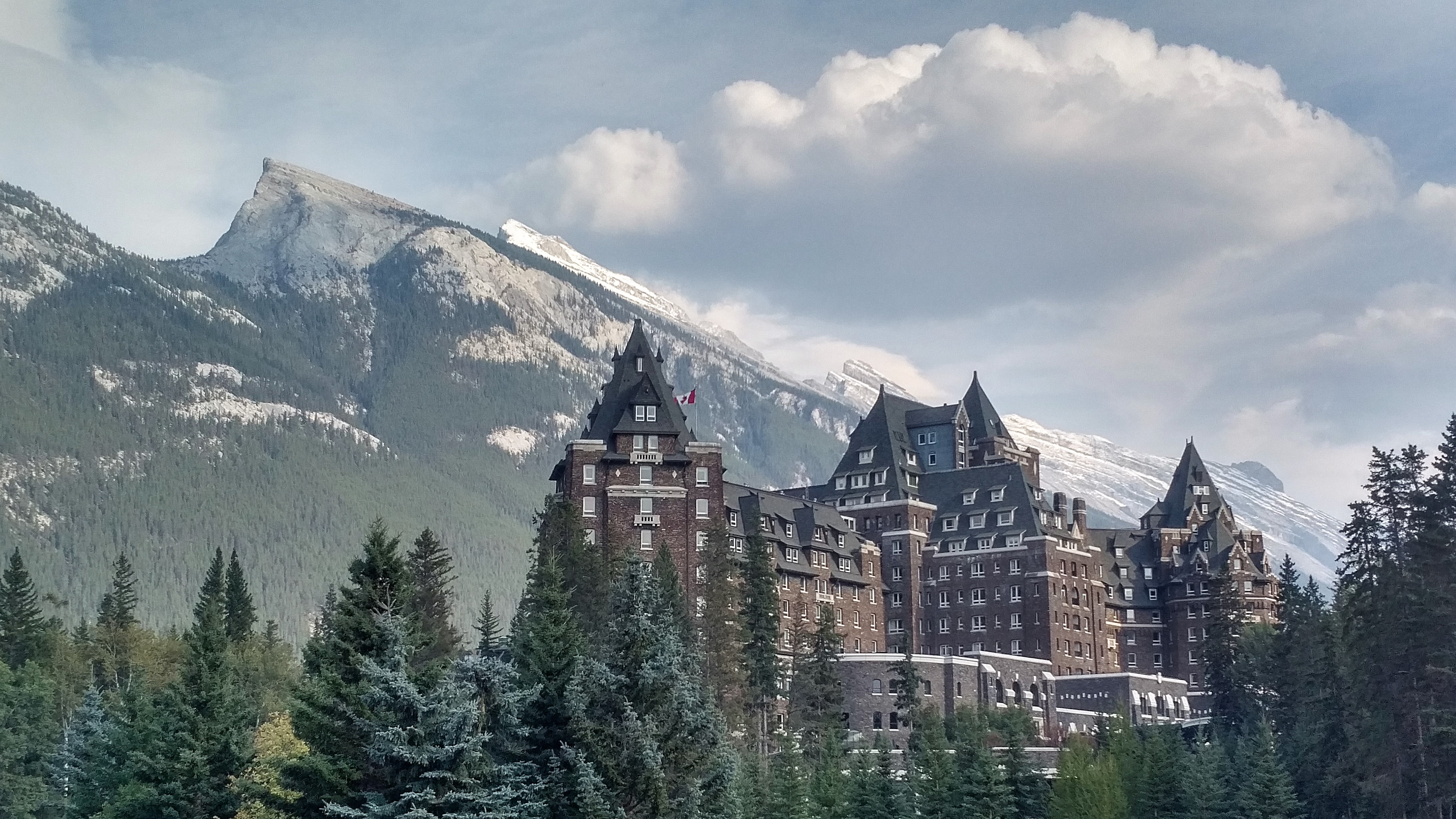 Fairmont Banff Springs Hotel, Alberta, Canada